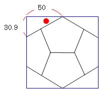 chamfering angle=τ:1